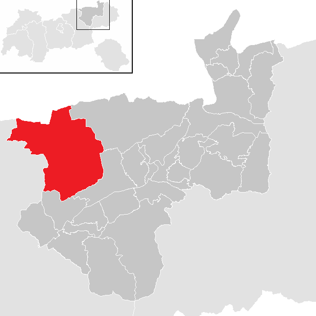 District Kufstein